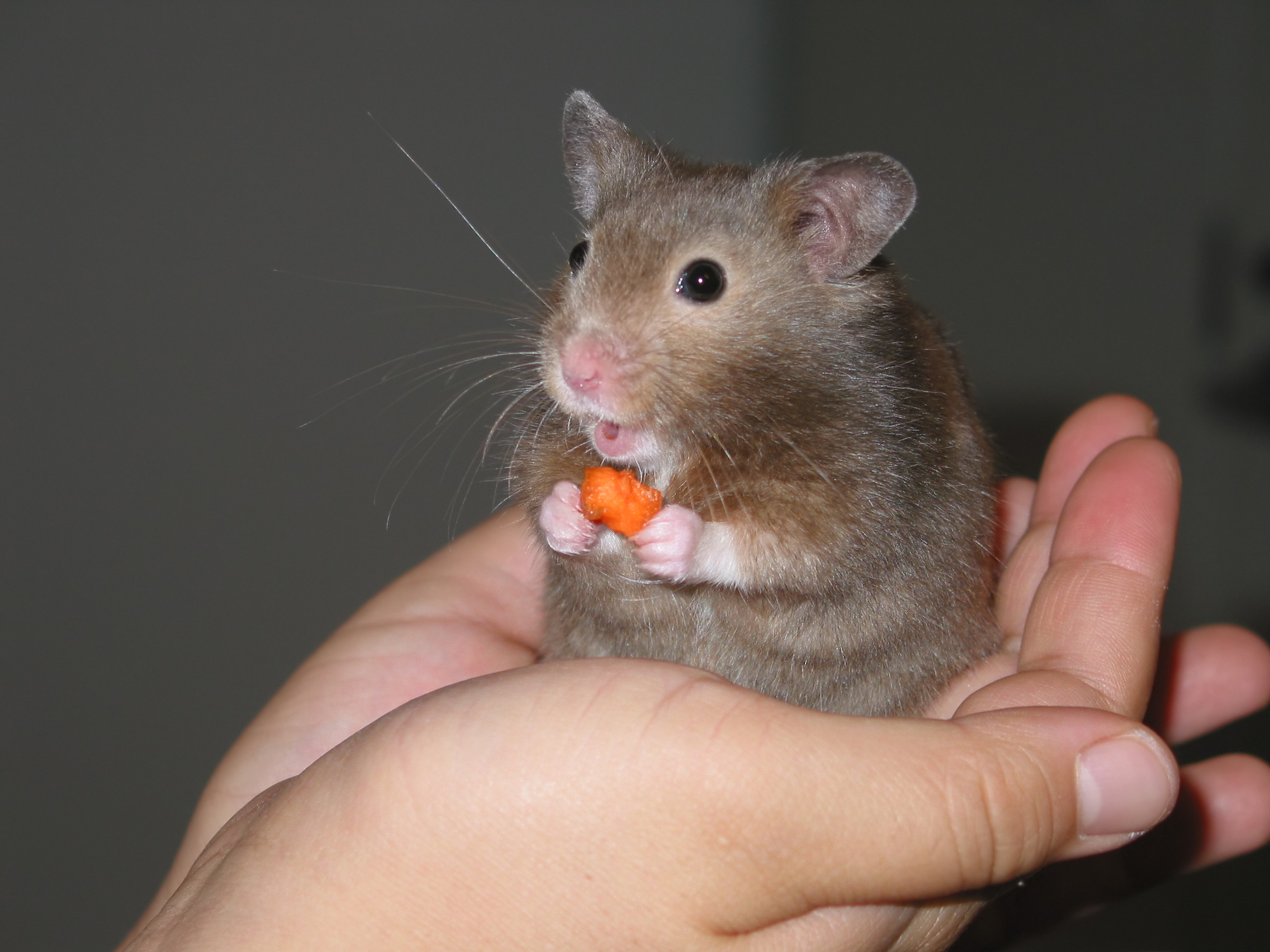 A short-haired hamster (named "Egbert") sitting in its owner's hand and eating a piece of carrot.